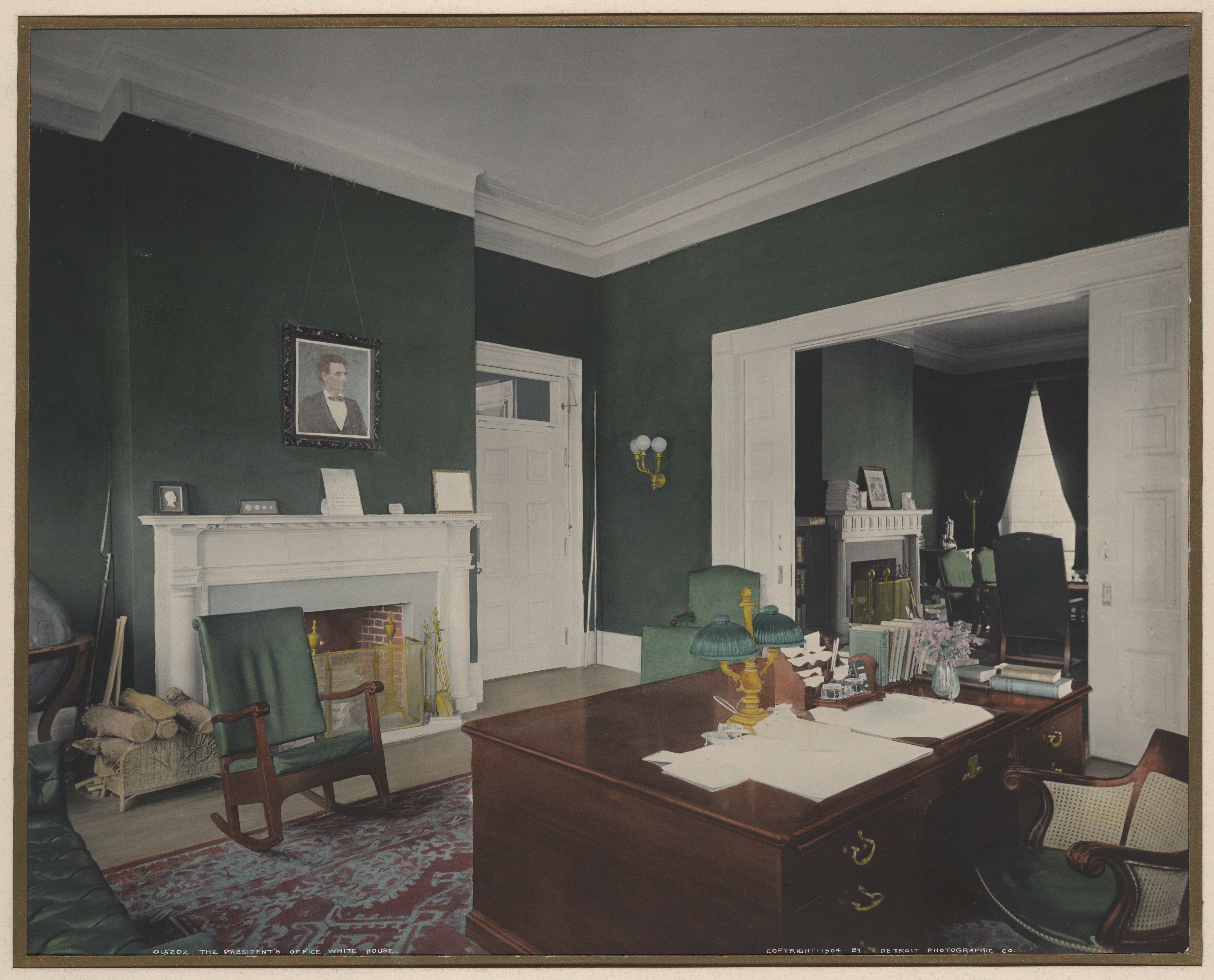 TITLE: President Theodore Roosevelt's Executive Office in the West Wing. The Cabinet Room can be seen through the double doors. CALL NUMBER: Unprocessed in PR 13 CN 2006:040 [item] [P&P] REPRODUCTION NUMBER: LC-DIG-ppmsca-11656 (digital file from original item) RIGHTS INFORMATION: No known restrictions on publication. MEDIUM: 1 photographic print : platinum, hand-colored ; 15 3/4 x 19 3/4 in. (photograph) CREATED/PUBLISHED: c1904. NOTES: No. 015202. Copyright 1904 by Detroit Photographic Company. Title from item. Gift of; Marjorie M. Fisher; 2006. Exhibited: American Treasures of the Library of Congress, Washington, D.C., 2007. SUBJECTS: White House (Washington, D.C.)--Facilities--1900-1910. Offices--Washington (D.C.)--1900-1910. Furnishings--1900-1910. FORMAT: Platinum prints Color 1900-1910. REPOSITORY: Library of Congress Prints and Photographs Division Washington, D.C. 20540 USA DIGITAL ID: (digital file from original item) ppmsca 11656 CONTROL #: 2006680304